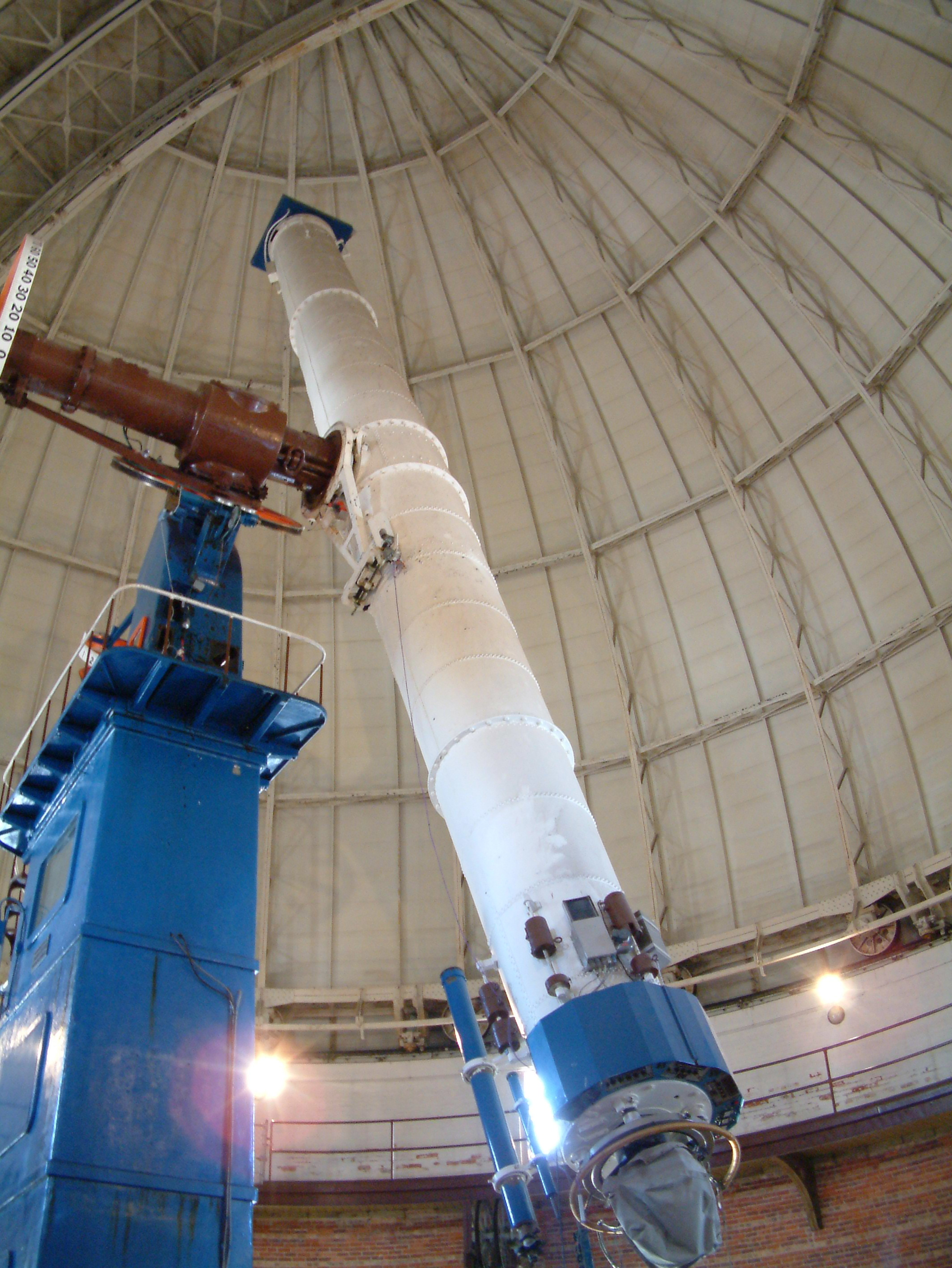 Yerkes Observatory 40 inch Refractor Telescope. Taken by me on 9 December 2006 with a Fuji S-602 Digital Camera.